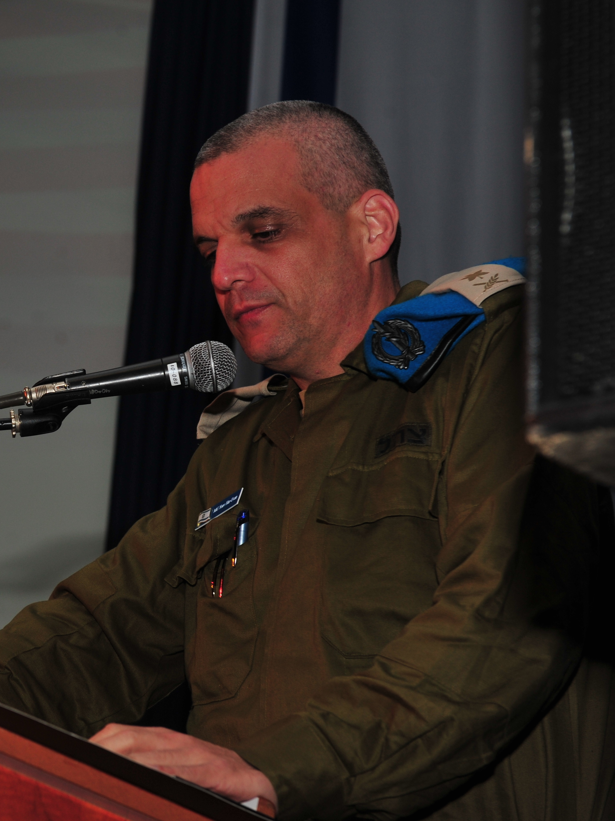 Israeli air force Maj. Gen.Yoav Har-Even speaks to U.S. and Israeli military members during the opening ceremony of Austere Challenge 2012. 10th AAMDC soldiers participate in the joint Austere Challenge 2012 Exercise with Israeli Defense Forces to develop partnered air and missile defense capabilities.